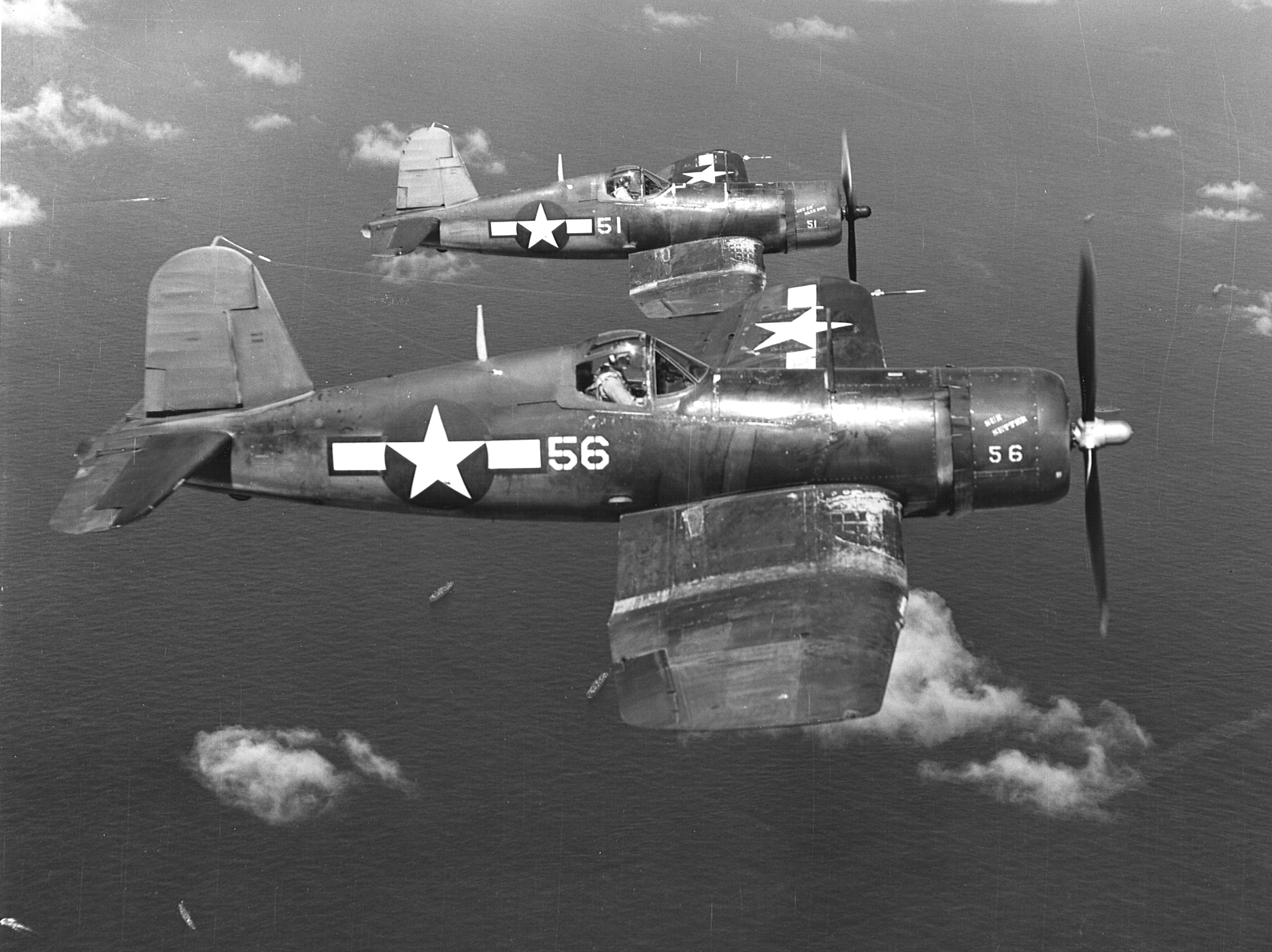 Two U.S. Marine Corps Vought F4U-1A Corsair aircraft from Marine Fighting Squadron VMF-113 in flight near Eniwetok. Plane No. 51 is known as "GET EM BLUEDOG" and No. 56 as "SUN SETTER".